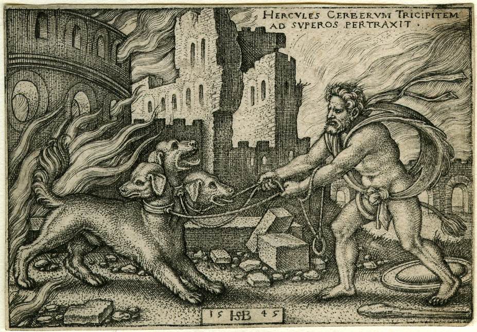 Beham, (Hans) Sebald (1500-1550): Hercules capturing Cerberus, 1545 (B., P. 104 iii/iii) from The Labours of Hercules (1542-1548). Final state.